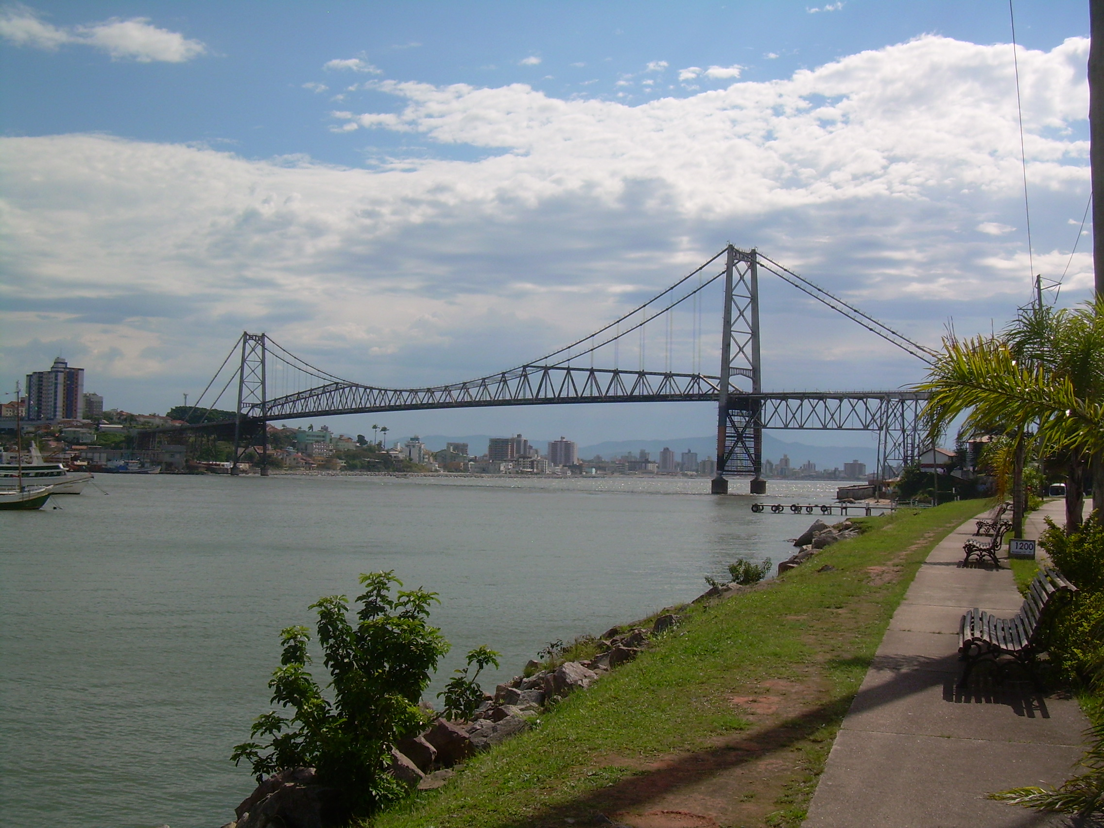 Bridge Hercilio Luz in Florianópolis